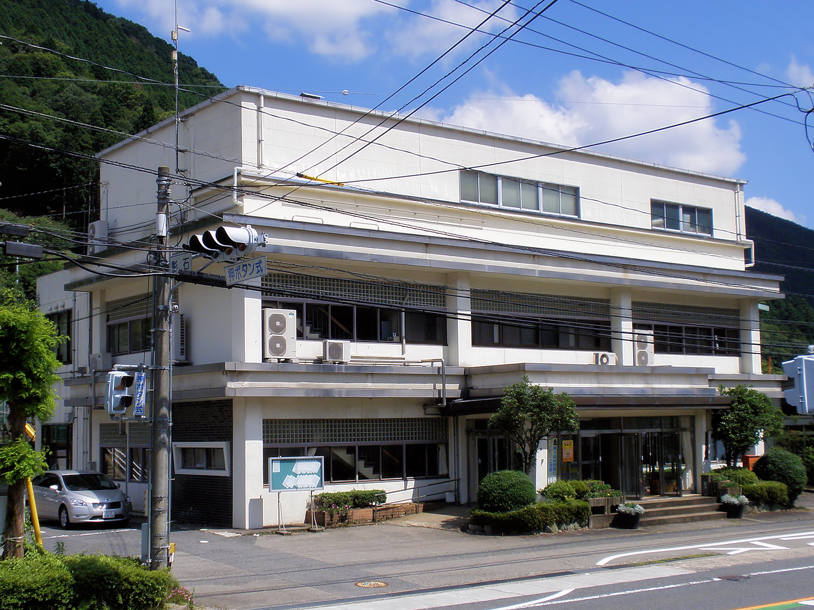 Nishiawakura village office (Since May, 1965)